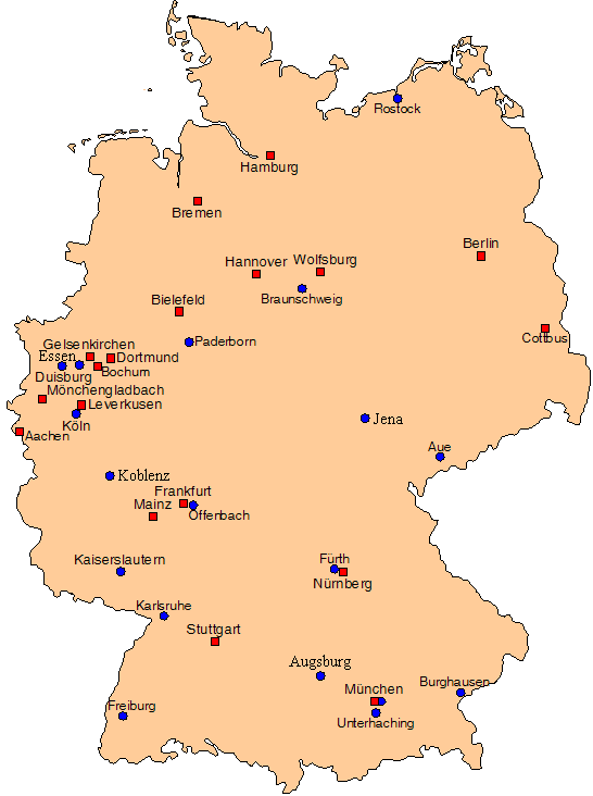 Map of the hometowns of the clubs playing in 1st and 2nd Bundesliga, season 2006/07. Towns with clubs playing in 1st Bundesliga are marked red, towns with clubs playing in 2nd Bundesliga are marked blue.